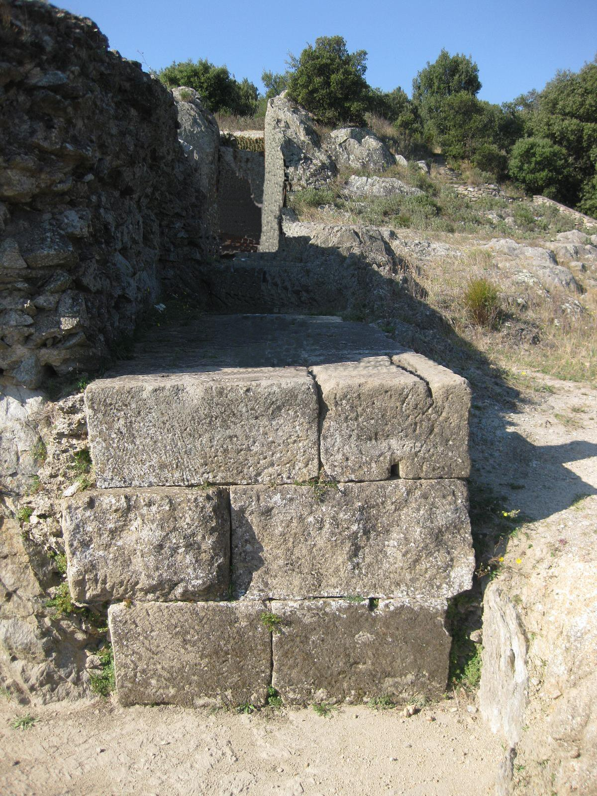 Foundations of Pompey Trophy (Panissars)